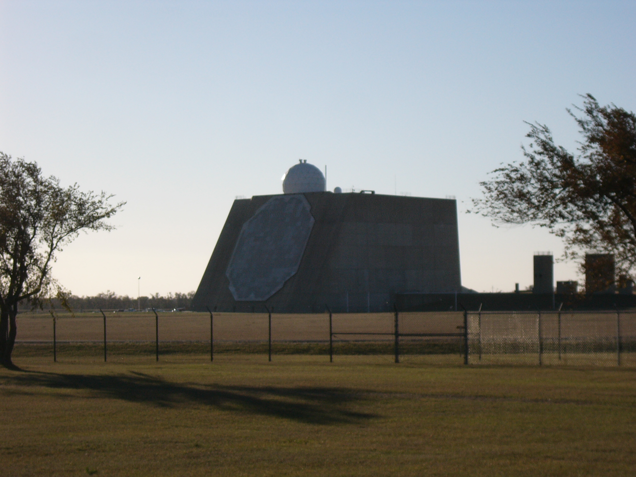 Perimeter Acquisition Radar Characterization System